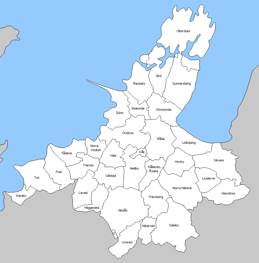 Parishes in Lidköping's municipality